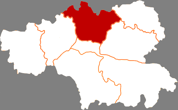 Location of Qin'an county in Tianshui city, China